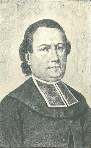 Gregor Jožef Plohel (1730-1800) Styrian Slovene Roman Catholic priest, dean and writer